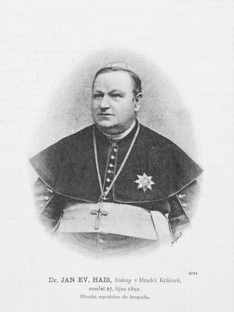 Portrait of Josef Jan Hais (1829-1892), Czech Roman-Catholic bishop of Hradec Králové